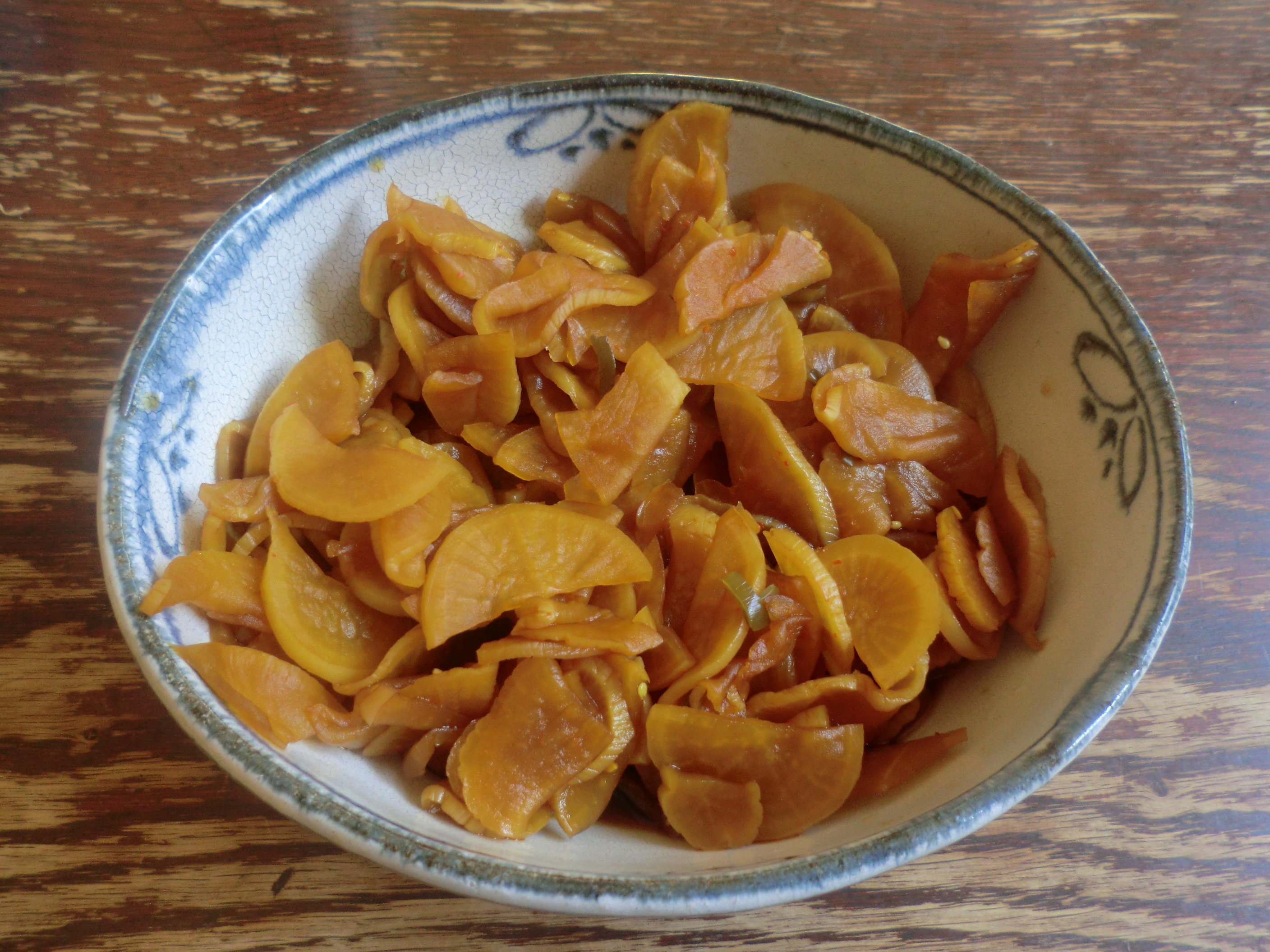 Yamakawa duke"(Pickle), famous in Kagoshima,Japan.